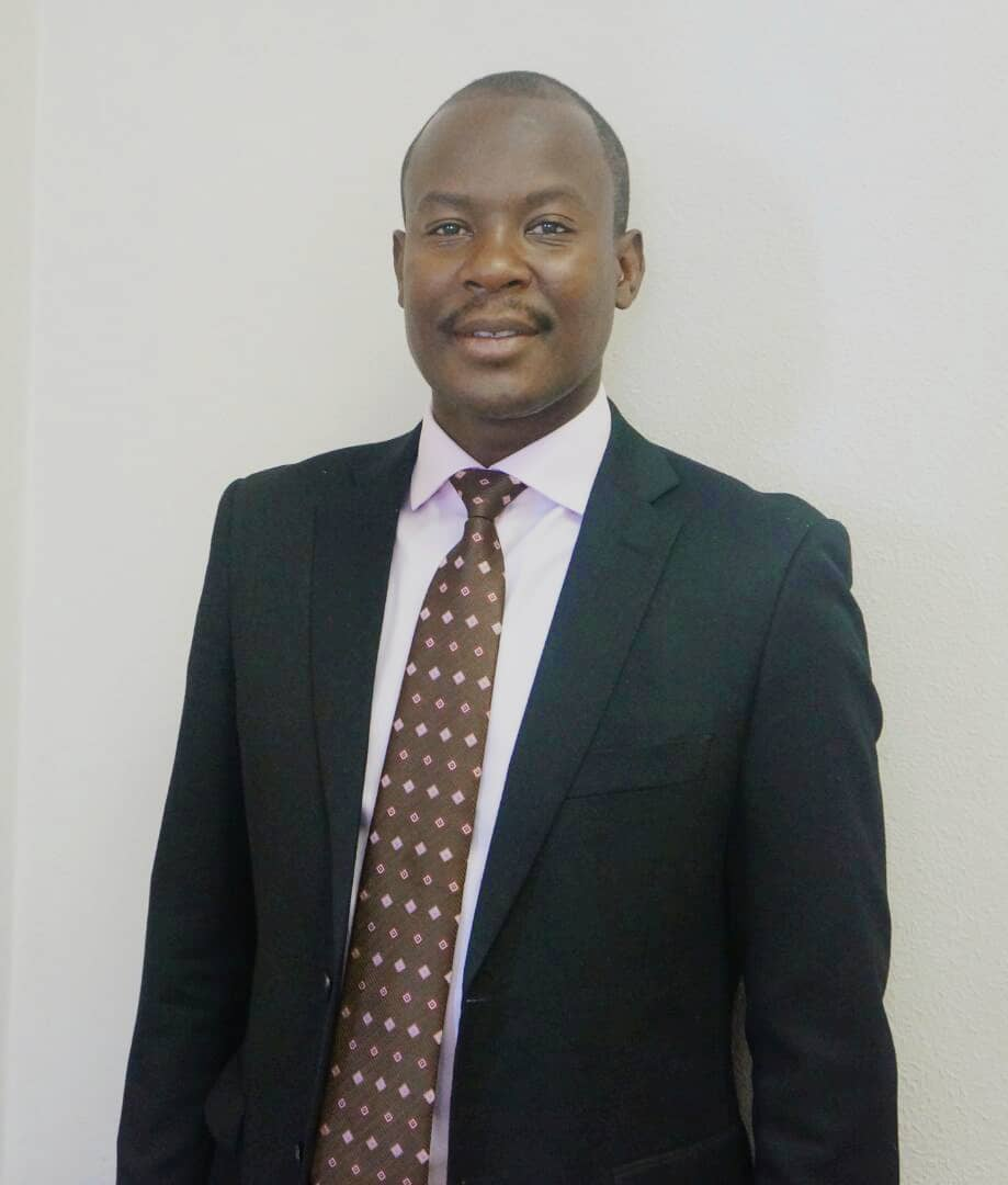 Muharukua at the opening of the Parliament